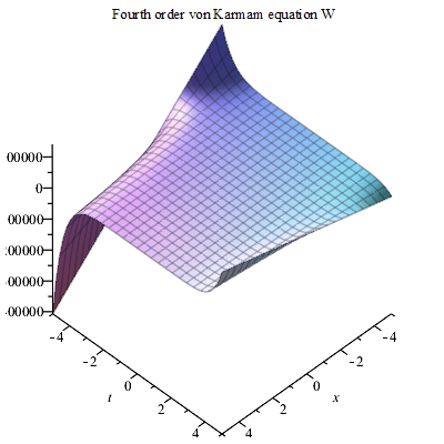 Von Karman equation w Maple plot